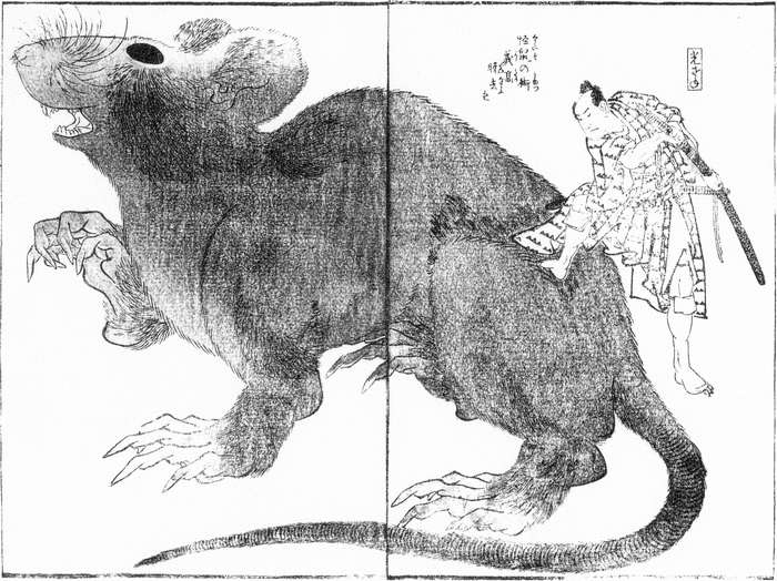 a monster rat from the "Raigo Ajari Kaisoden" (頼豪阿闍梨恠鼠伝)